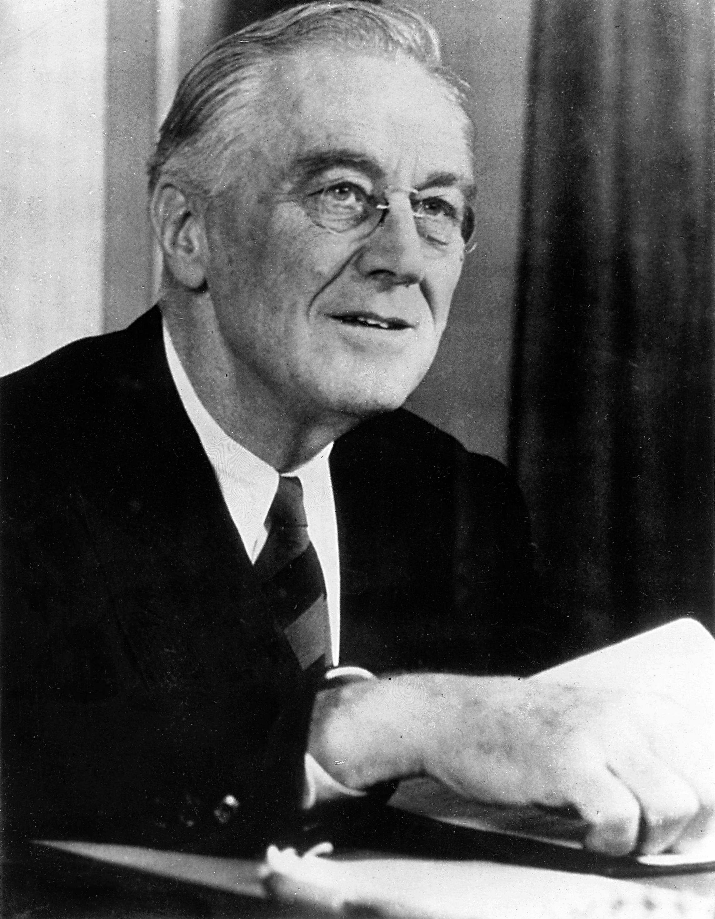 Public domain picture from FDR Library